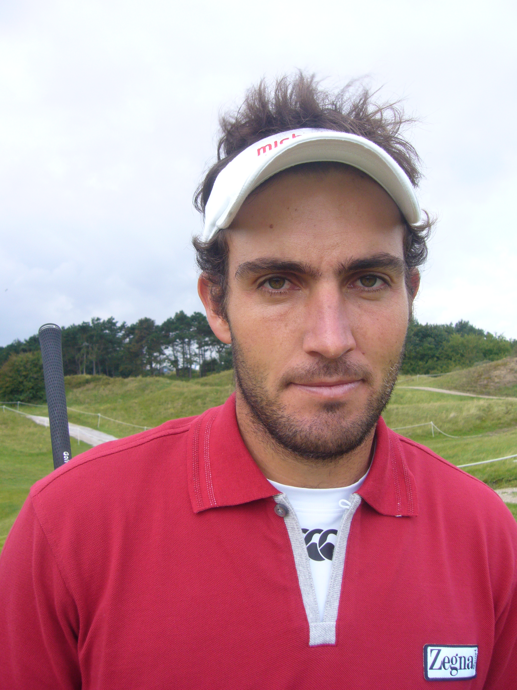 Edoardo Molinari, Italiaans golfprofessional